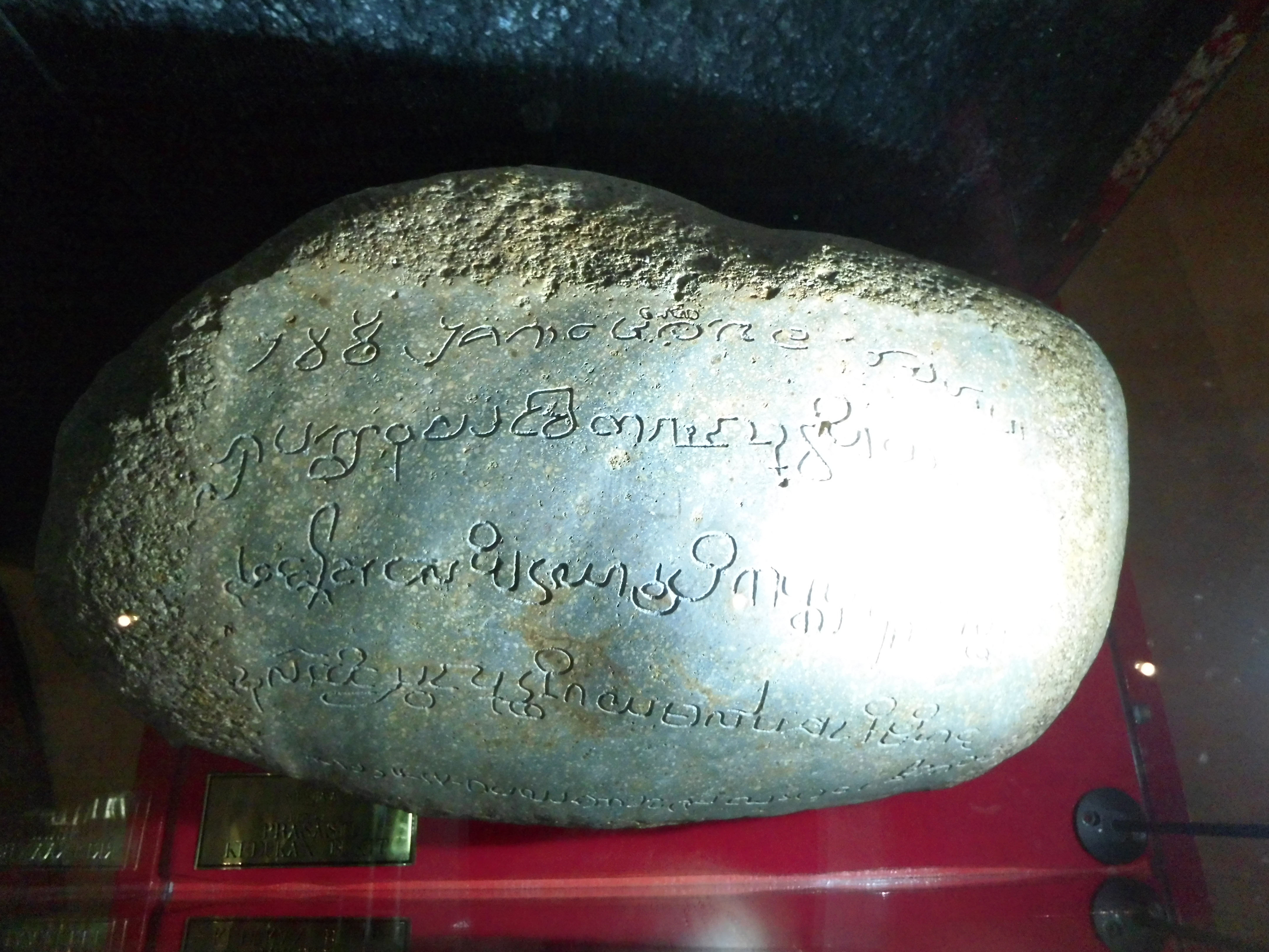 Kedukan Bukit inscription (7th century, Srivijaya, Palembang), displayed in "Kedatuan Sriwijaya" exhibition in November 2017. National Museum of Indonesia, Jakarta, Indonesia.